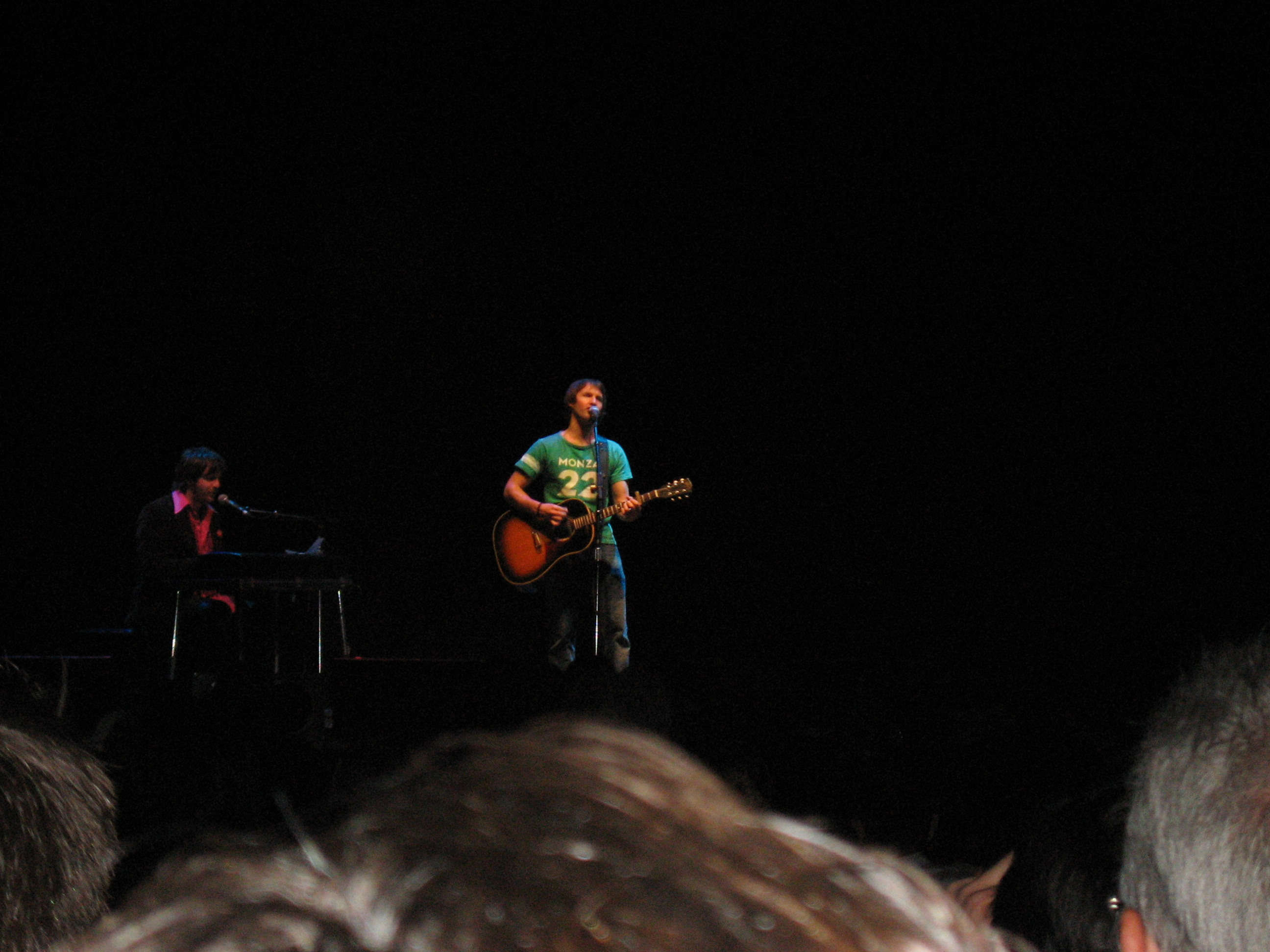 James Blunt performing at the Copley Symphony Hall in San Diego, California.